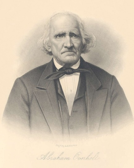 Abraham Overholt, 1784-1870. West Overton, Pennsylvania whiskey distiller. Founder and namesake of Old Overholt rye whiskey.